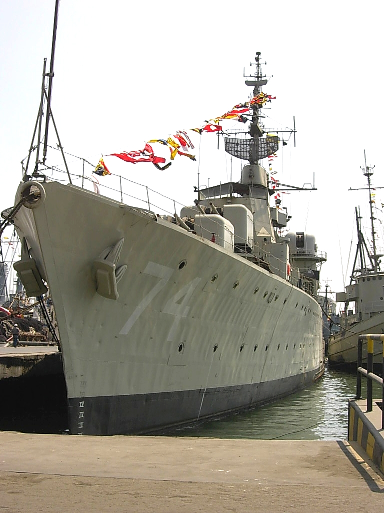 BAP Ferré (DM-74) on display at October 20, 2007 in the Callao Naval Base. The ship was decommisioned in July 13 of the same year - (Photographer:en:User:Cloudaoc)